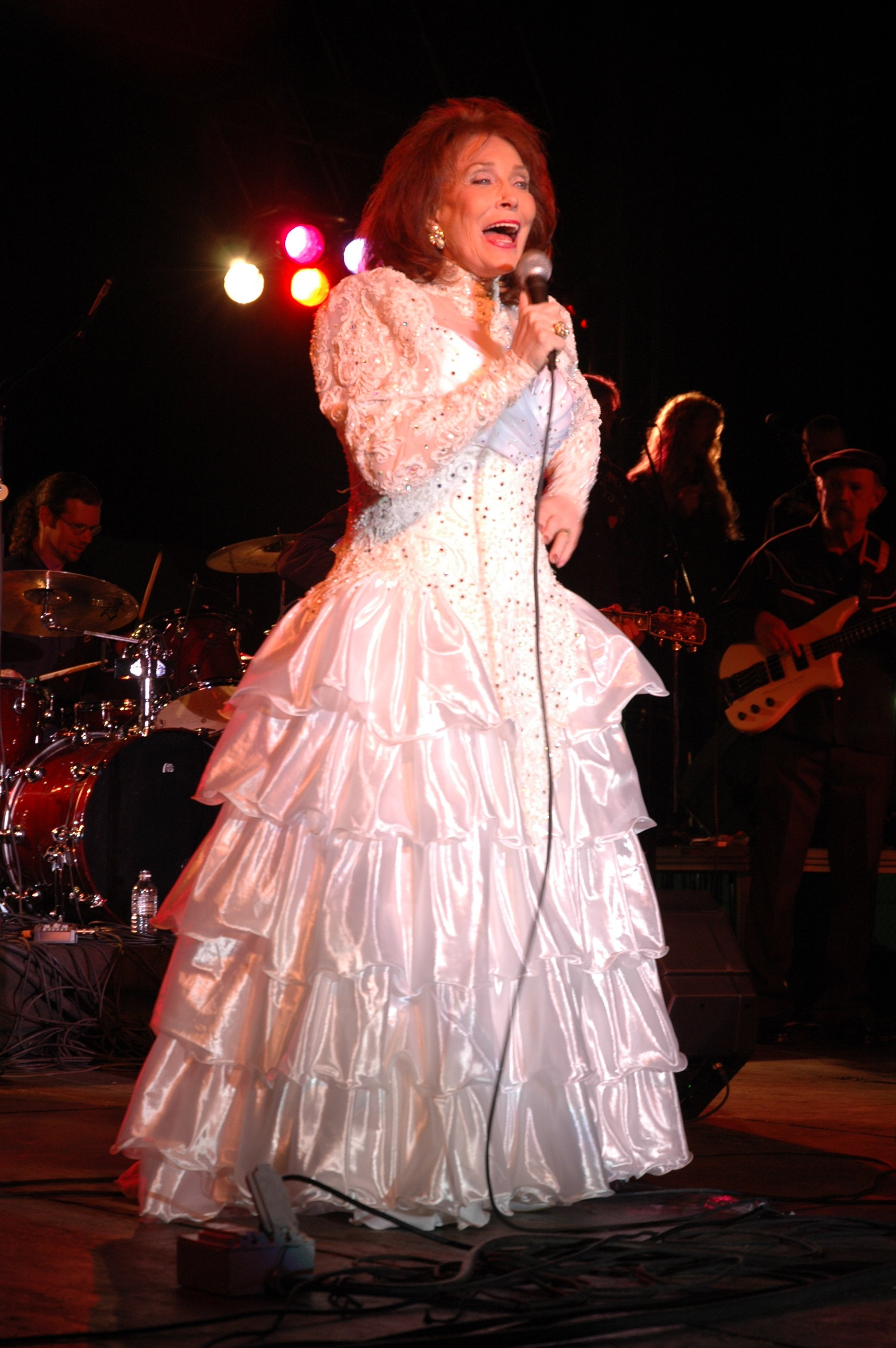 Loretta Lynn City Stages 2005 in Birmingham.